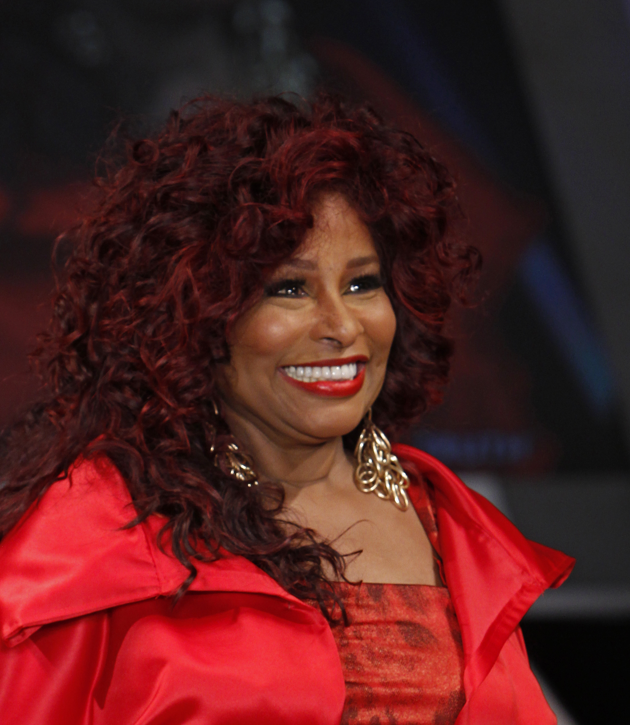 Photo by Dan&Corina Lecca